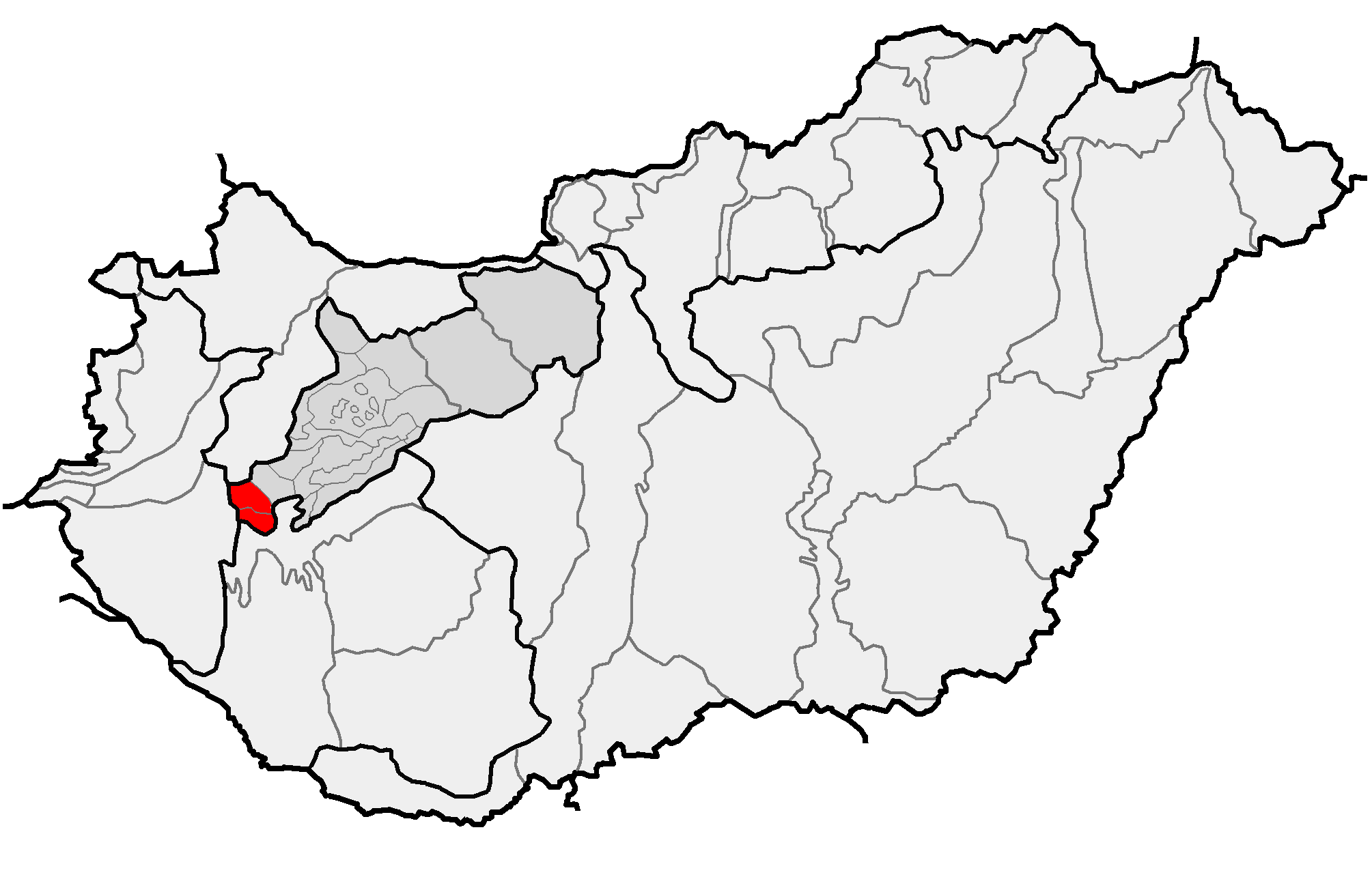 Location of geographical subregion of Keszthelyi-hegység (red) and macroregion of Dunántúli-középhegység (gray) within subdivisions of Hungary.